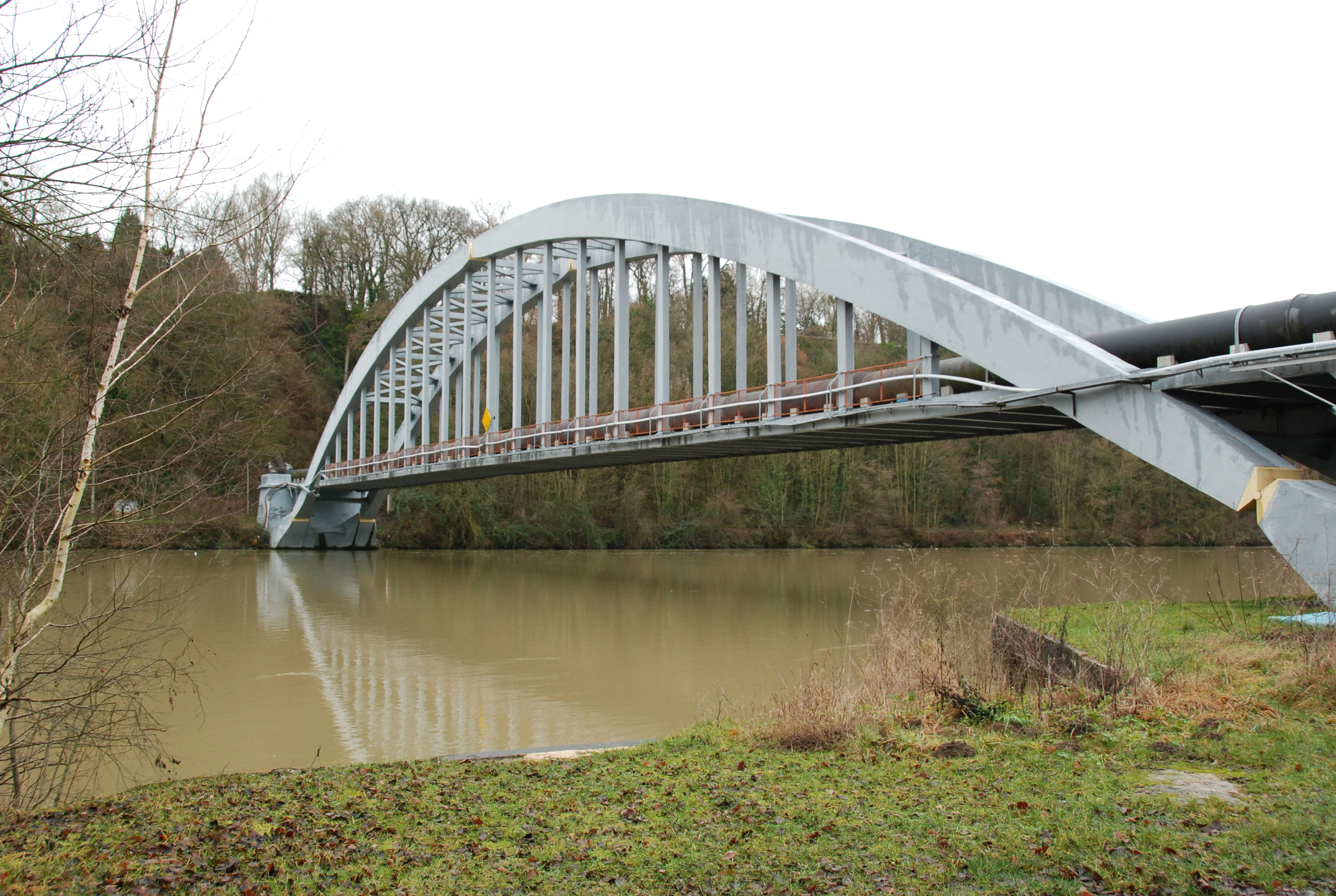 Coté Champagne.